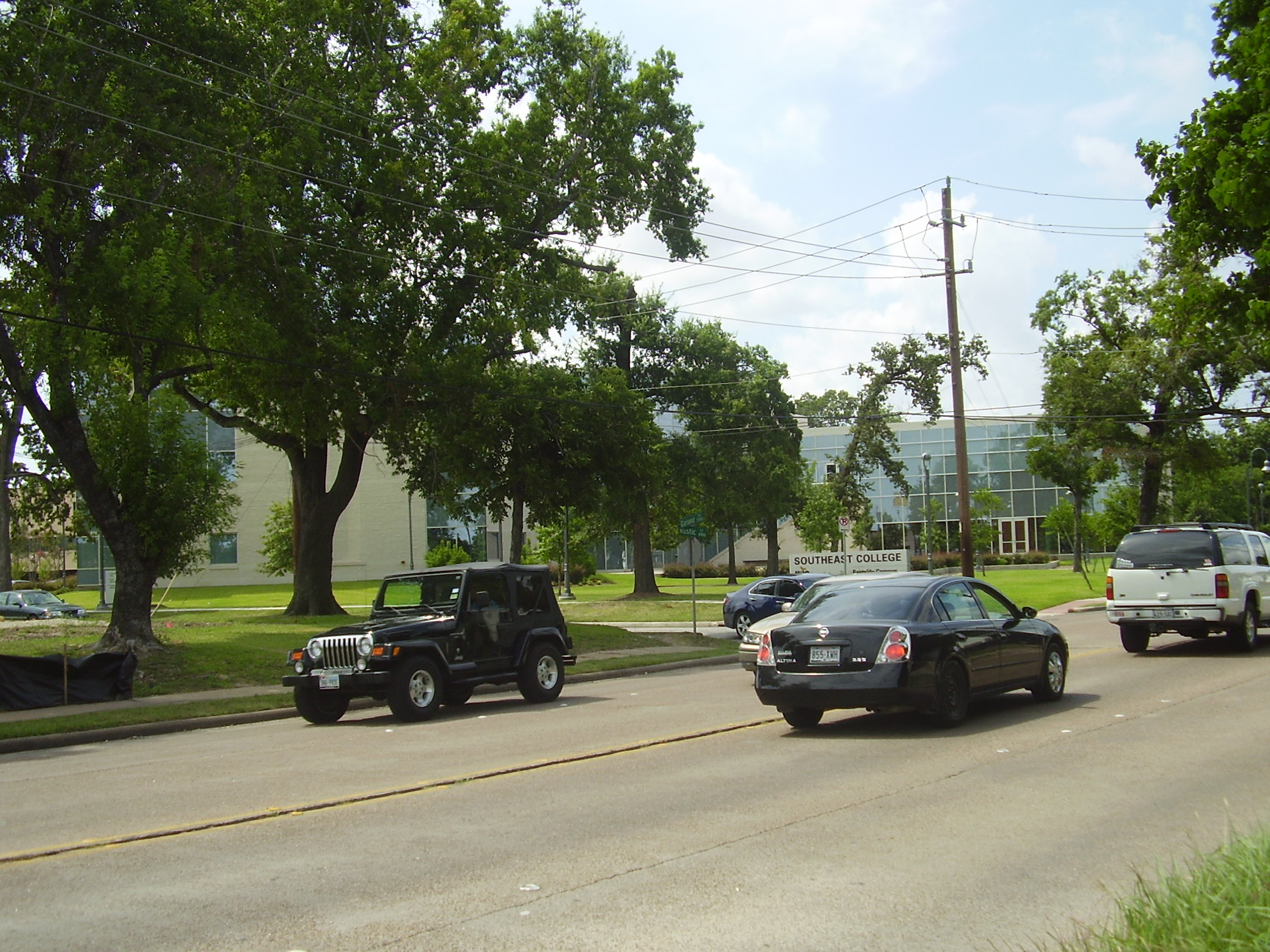 HCCS Southeast College